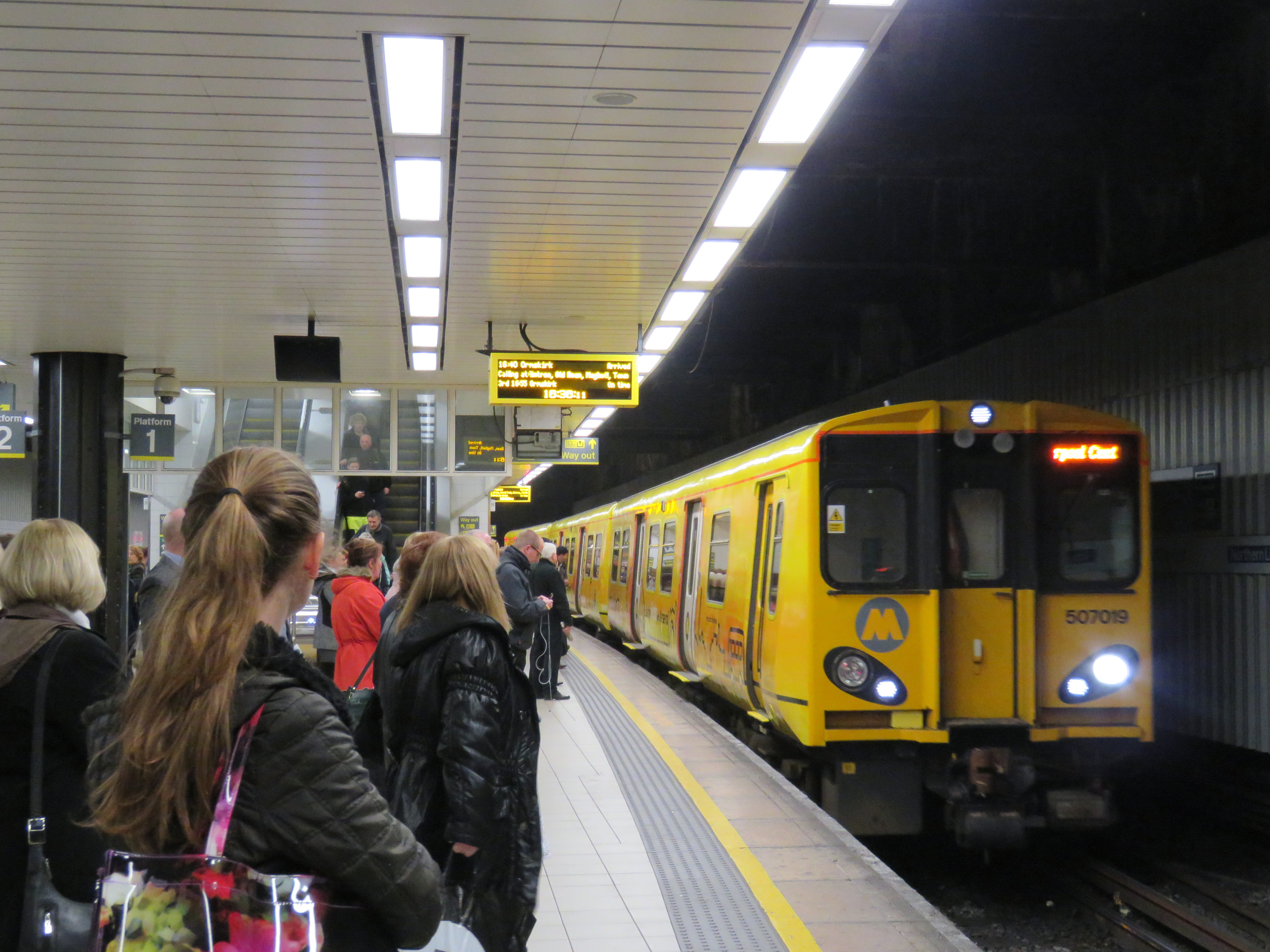 train at platform, Moorfields station, Liverpool